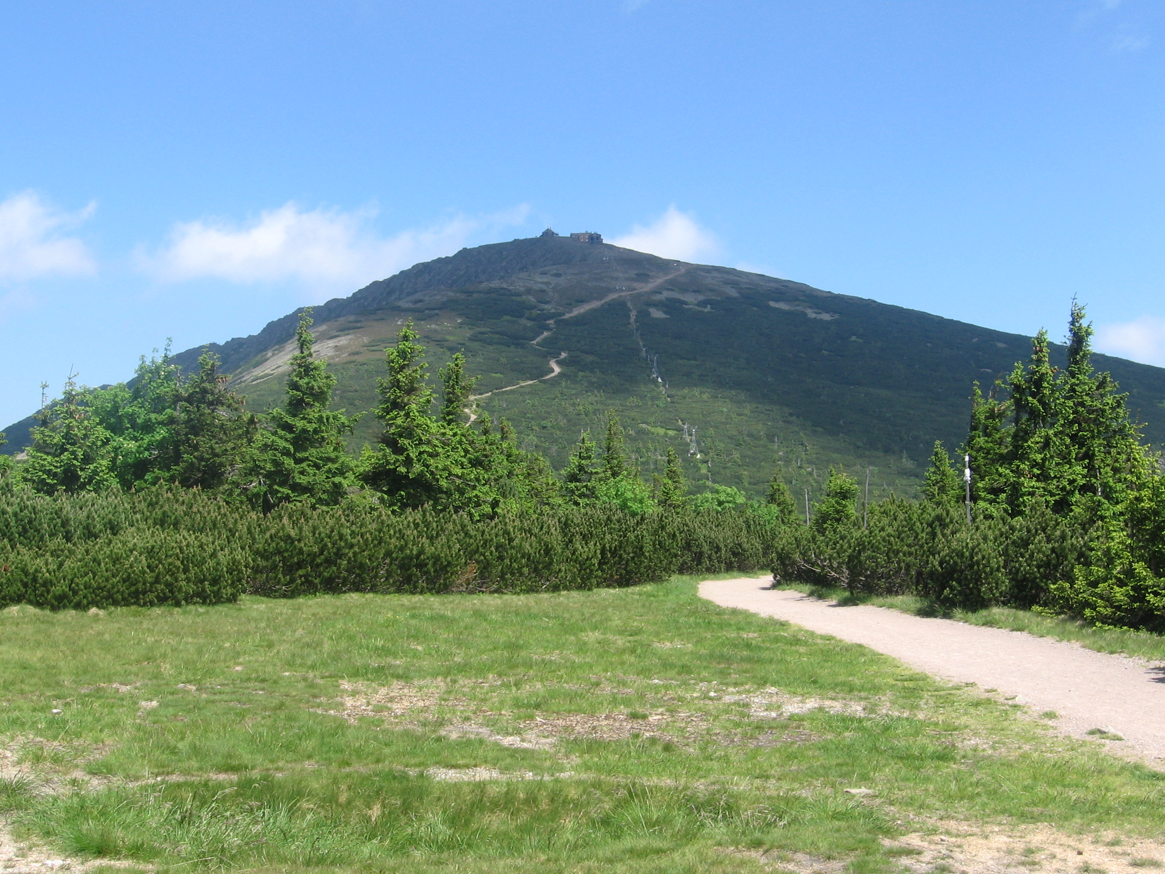 Sněžka - Highest moutain of the Krkonoše